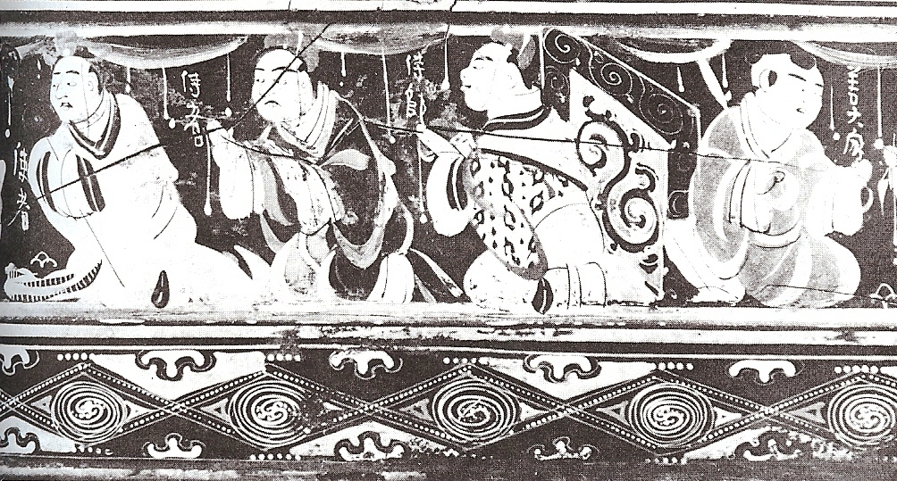 Paragons of filial piety, Chinese painted artwork on a lacquered basketwork box. It was excavated from an Eastern Han tomb of what was the Chinese Lelang Commandery in what is now North Korea. Each of the figures are about 5 cm tall. It is now located at the National Museum of Seoul. The photograph is black-and-white, so the various lacquer-based colors of paint do not show.